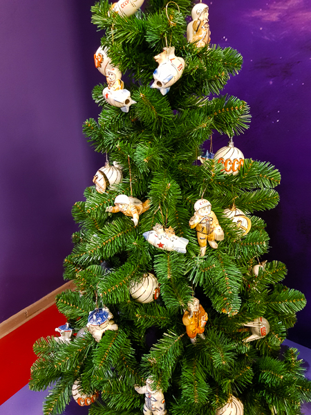 Ёлочные игрушки на выставке «Фарфоровый космос», проходившей в Музее космонавтики на ВДНХ с 19 декабря 2017 по 31 января 2018